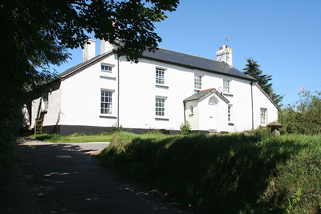 Exmoor: Red Deer Nursery School Marked as 'Gallon House' on maps. Looking north-north-east